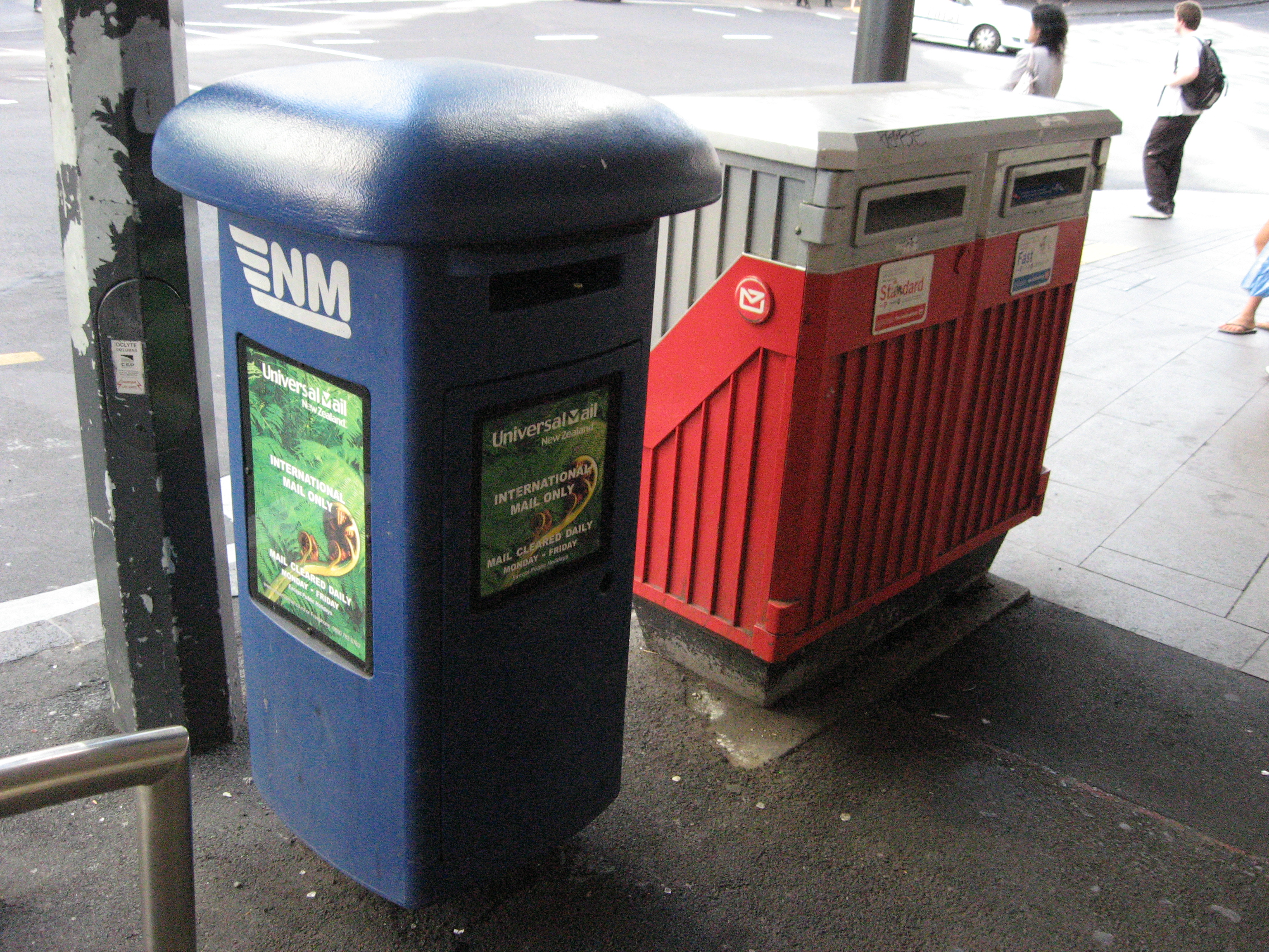 Several mailboxes (New Zealand Post and Universal Mail, a competitor's) on Queen Street, Auckland City, New Zealand.